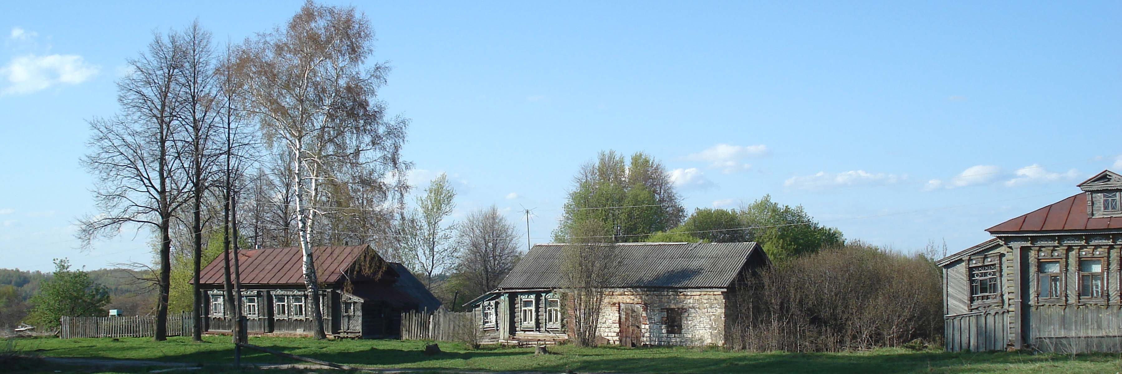 The view of the village of Krasno. Nizhegorodskaya oblast.